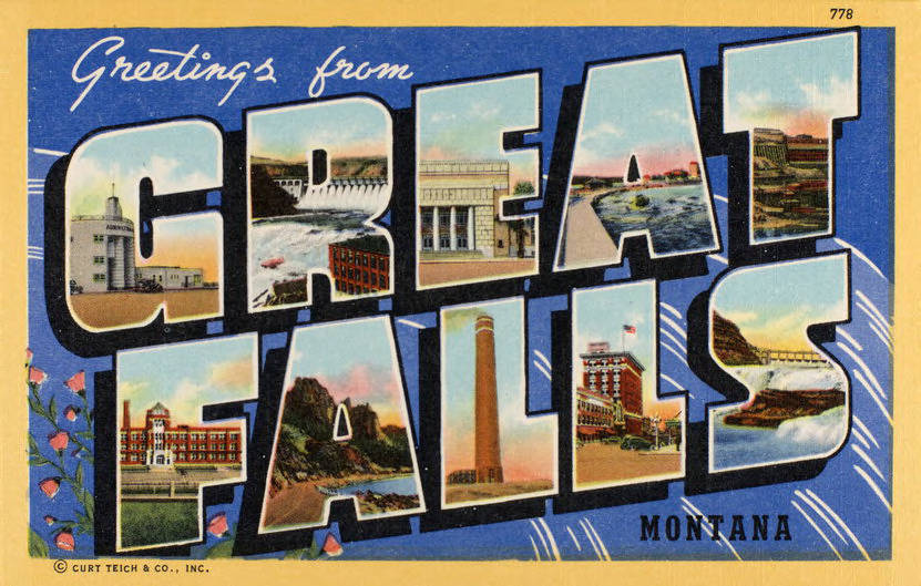 Large letter postcard of Great Falls. Various images from the city can be seen in the letters.